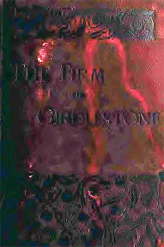 Scan of The Firm of Girdlestone cover.